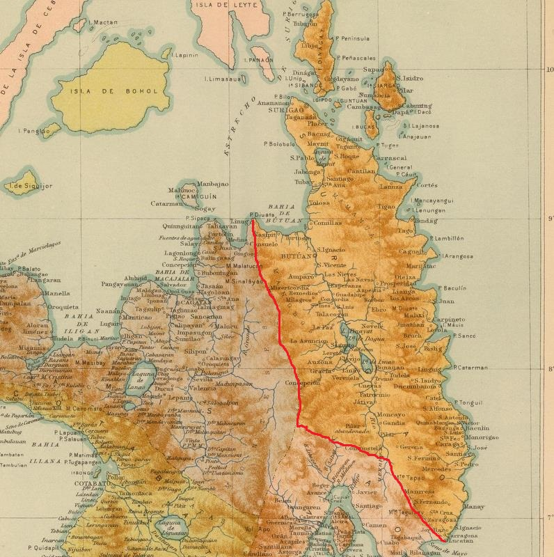 Surigao Province in 1899